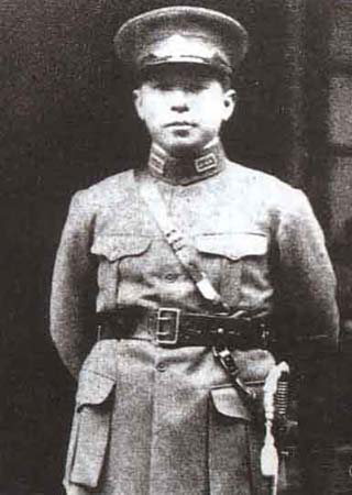 Young Marshall Zhang Xueliang